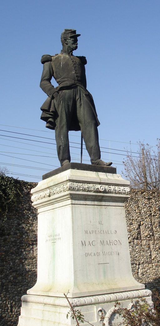 This photograph was taken in Magenta, Italy. It's of a statue of John MacMahon, Duke of Magenta, erected in honor of his role in winning the Battle of Magenta on 4 June 1859.